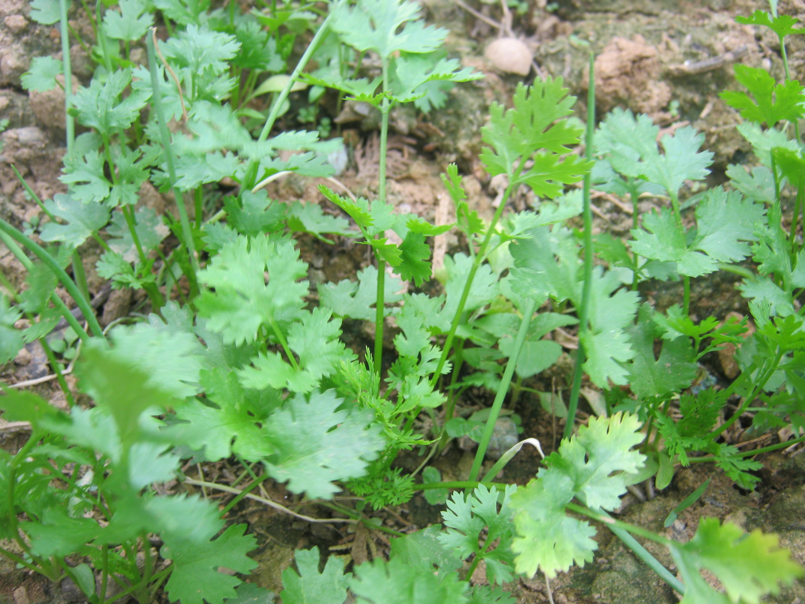 Coriander plants in Nepal.